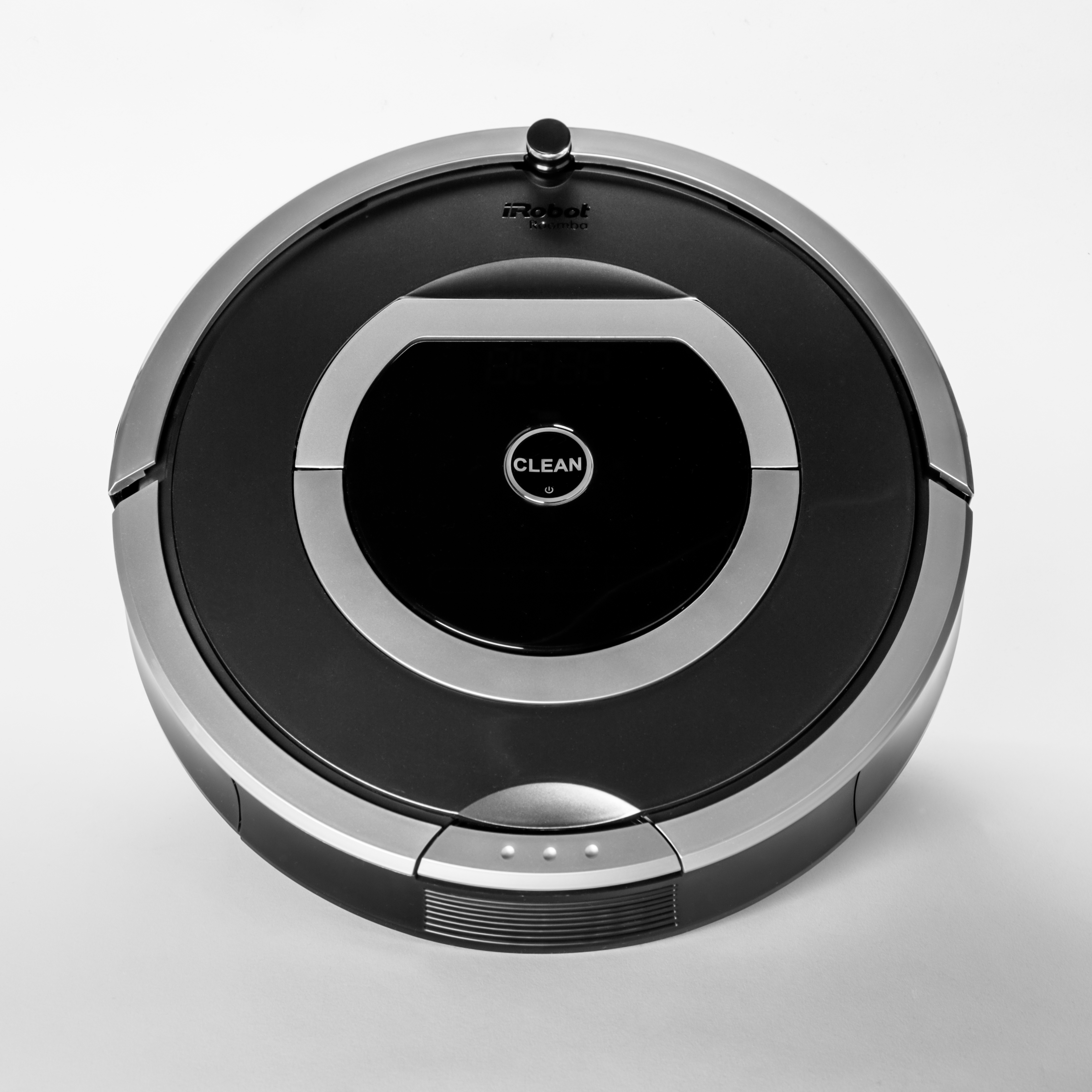 The model year 2014 iRobot Roomba 782 Hoover. Focus stacking of 4 pictures.